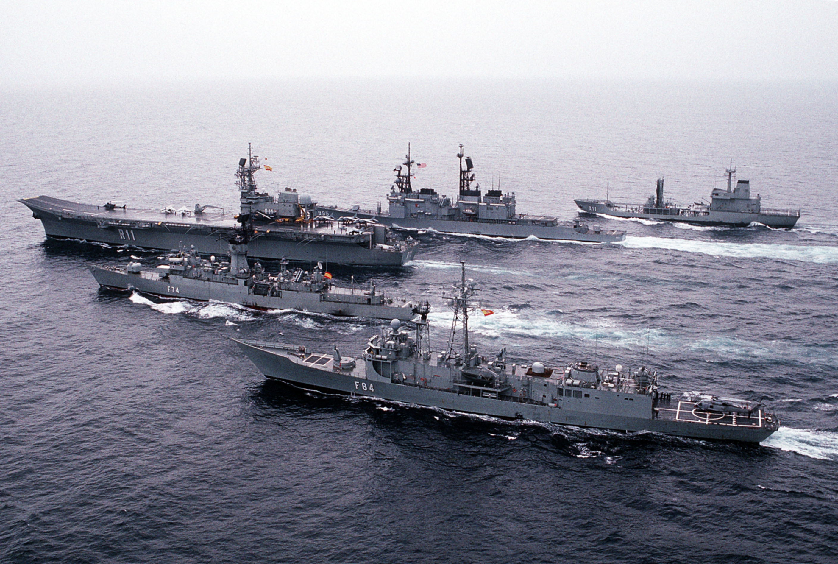 The U.S. Navy guided missile destroyer USS Scott (DDG-995), second from the top, steams in battle group formation with four Spanish ships during joint operations. The Spanish ships are, from top to bottom; the fleet tanker Marques de la Ensenada (A-11), the aircraft carrier Principe de Asturias (R11), and guided missile frigates Asturias (F-74) and Reina Sofía (F84).